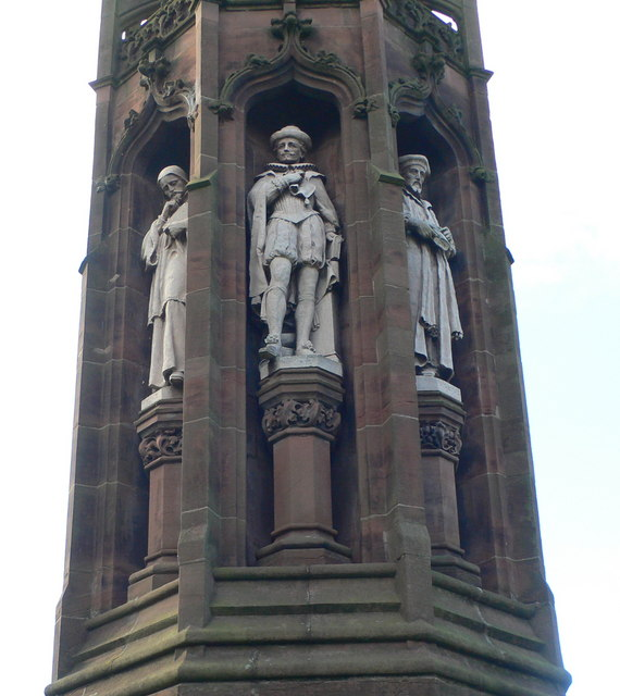 Translator's Memorial, St Asaph. The man in the middle is William Salesbury who translated the New Testament into Welsh in 1567. Salesbury was born in about 1520 in Llansannan, Conwy. He was educated at Oxford University, where he studied the Hebrew, Greek and Latin.